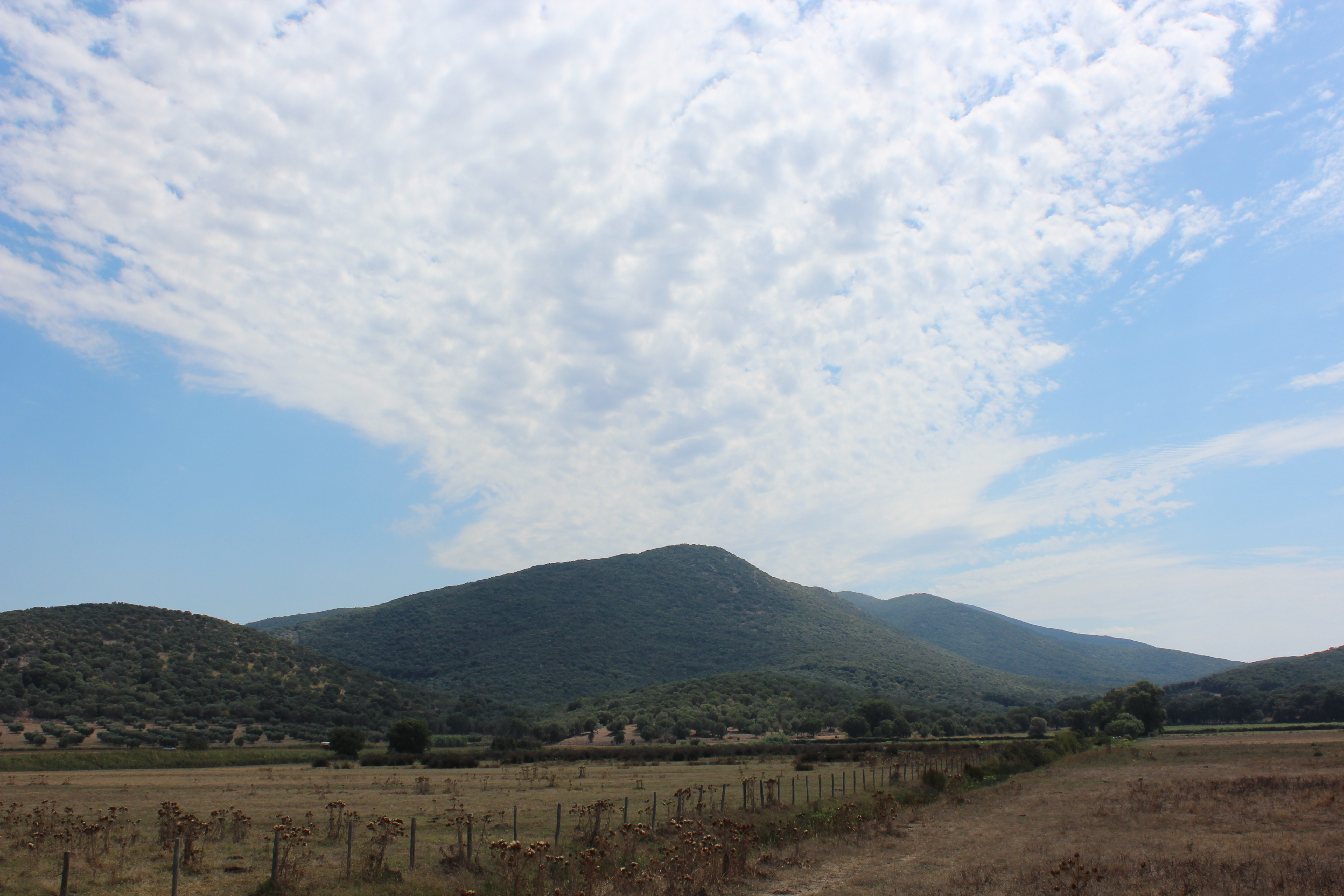 Northern Part of the Mountain range Monti dell’Uccellina, seen from Marina di Alberese, National Park Parco Regionale della Maremma, Alberese, hamlet of Grosseto, Maremma, Province of Grosseto, Tuscany, Italy